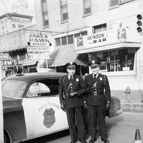 Two Oklahoma City Police officers cira 1950